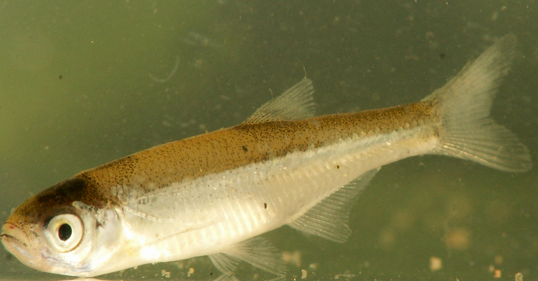 Leucaspius delineatus from the Beemster Ringvaart, The Netherlands